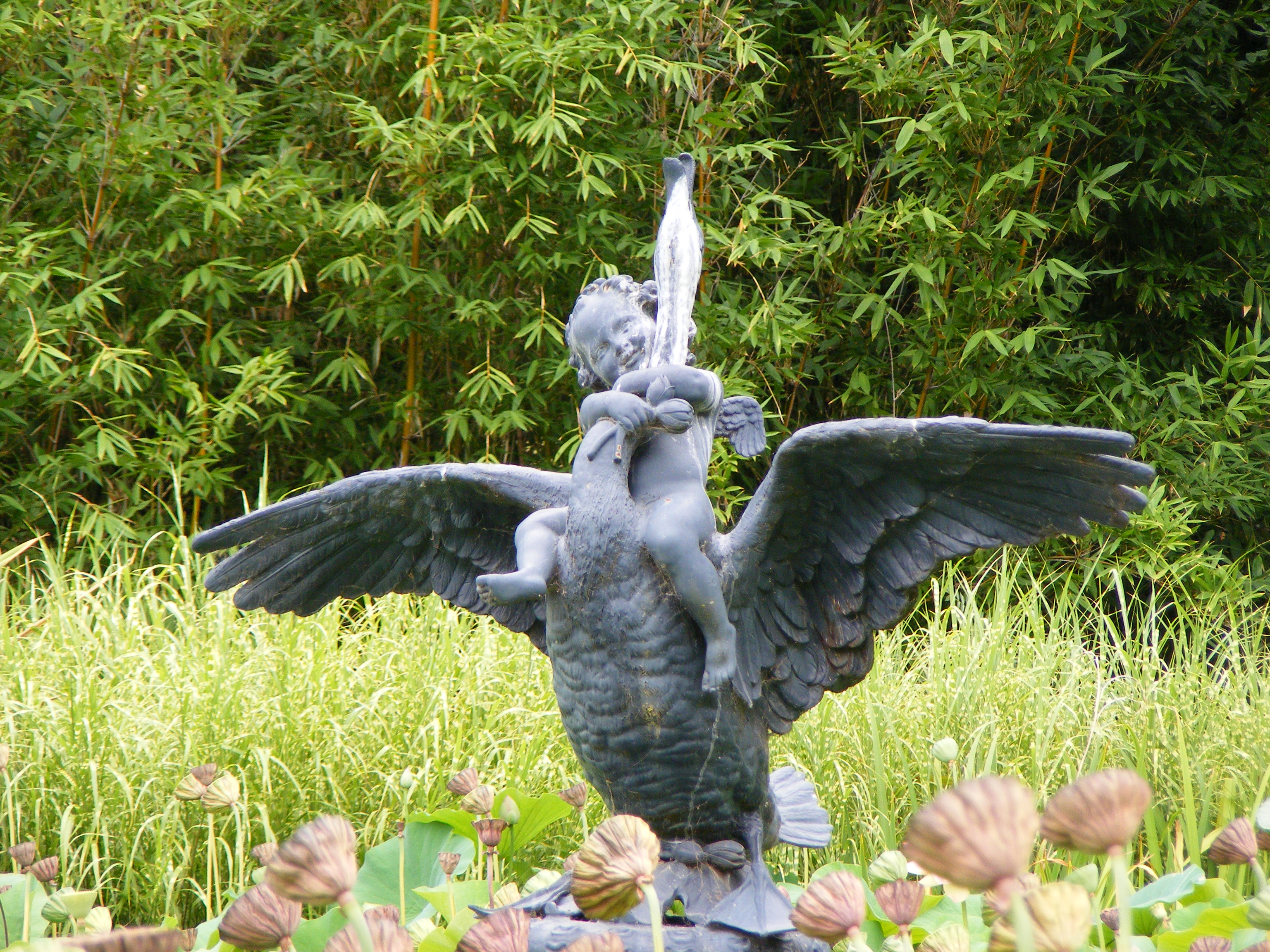 "Boy on a Swan" status. Donated in 1904. In the Nelumbo pond at Botanic Garden, Adelaide, South Australia